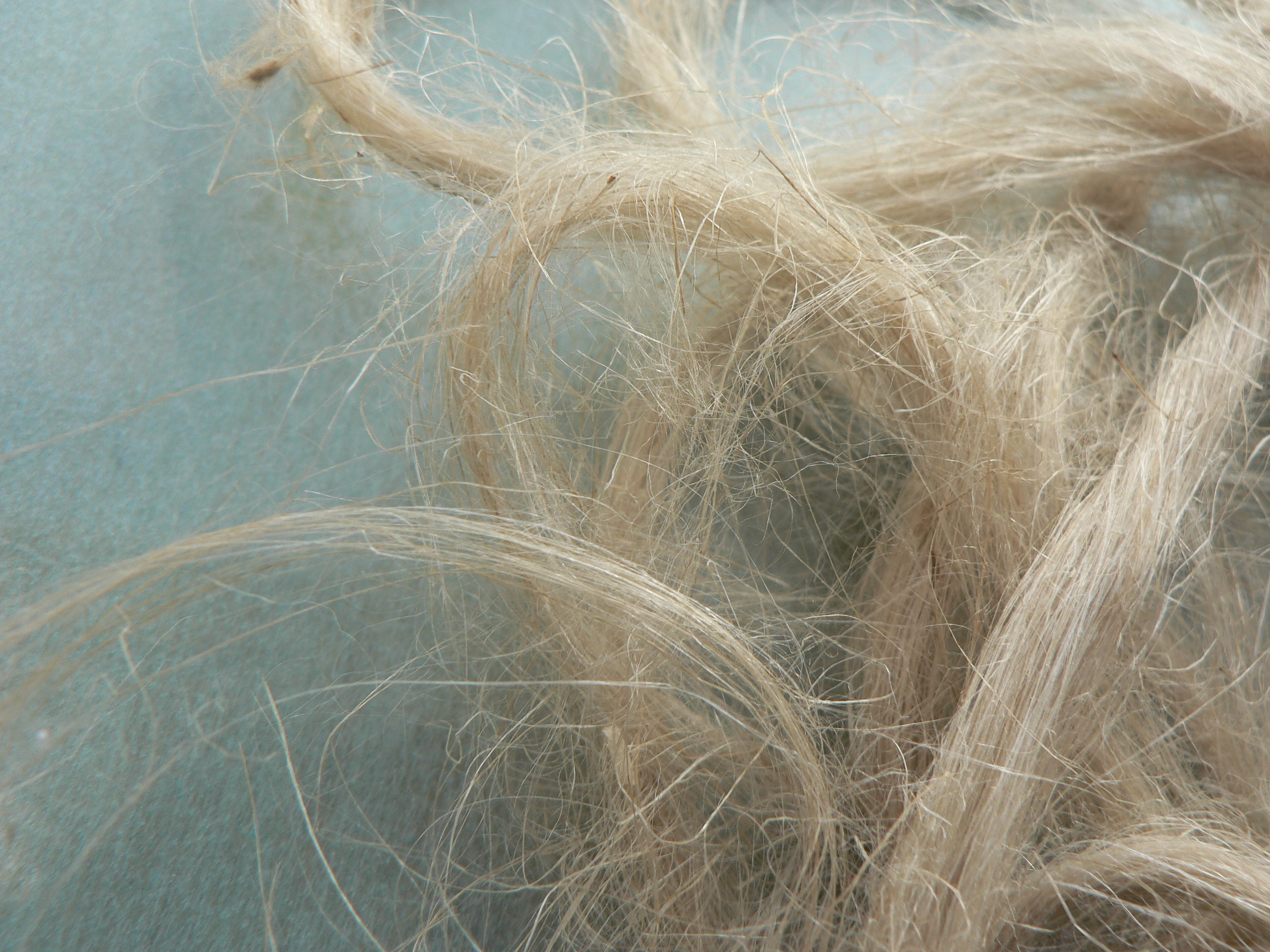 flax fibers for plumber work